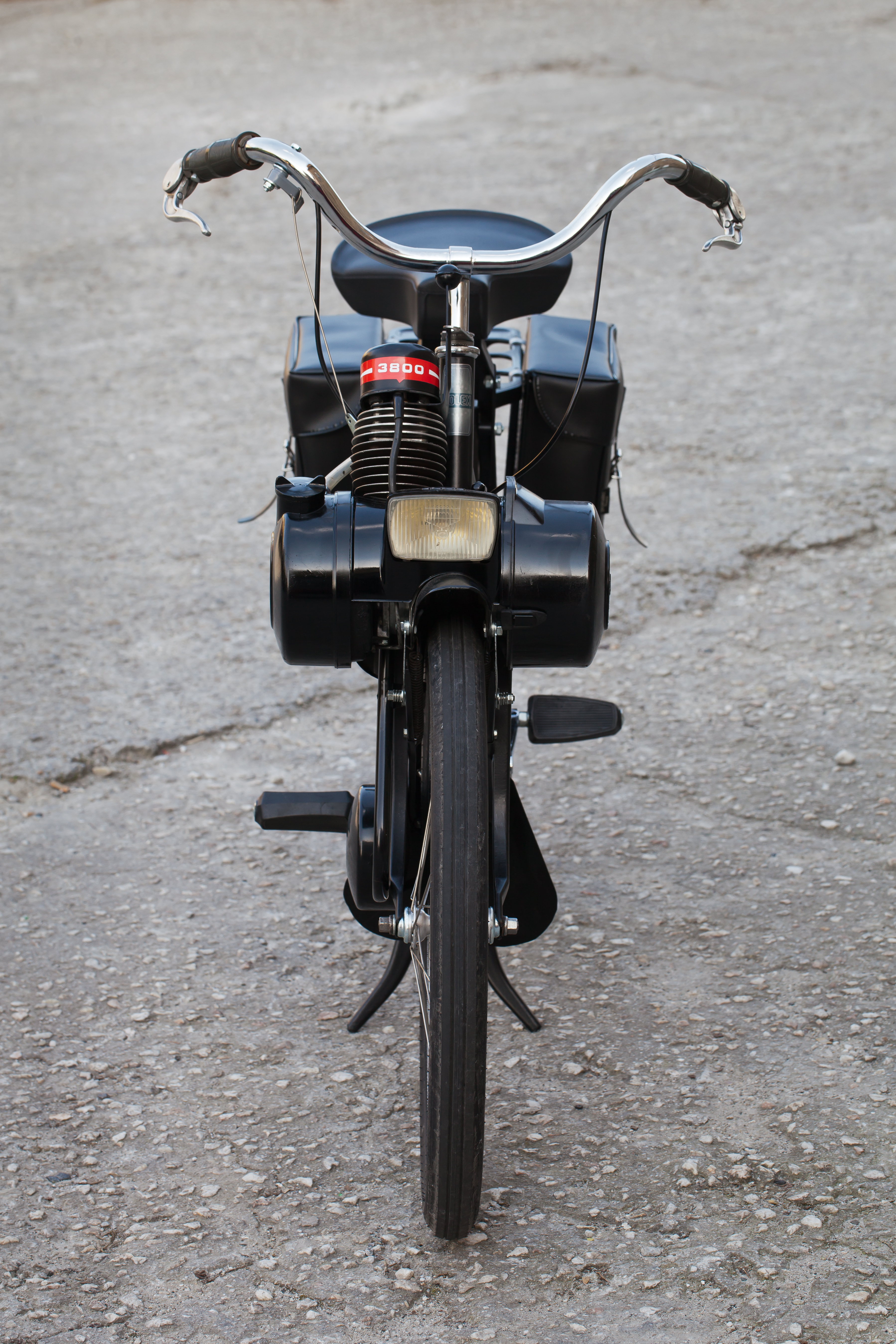 Solex 3800. Year 1966. Santiago de Compostela, Galicia, Spain